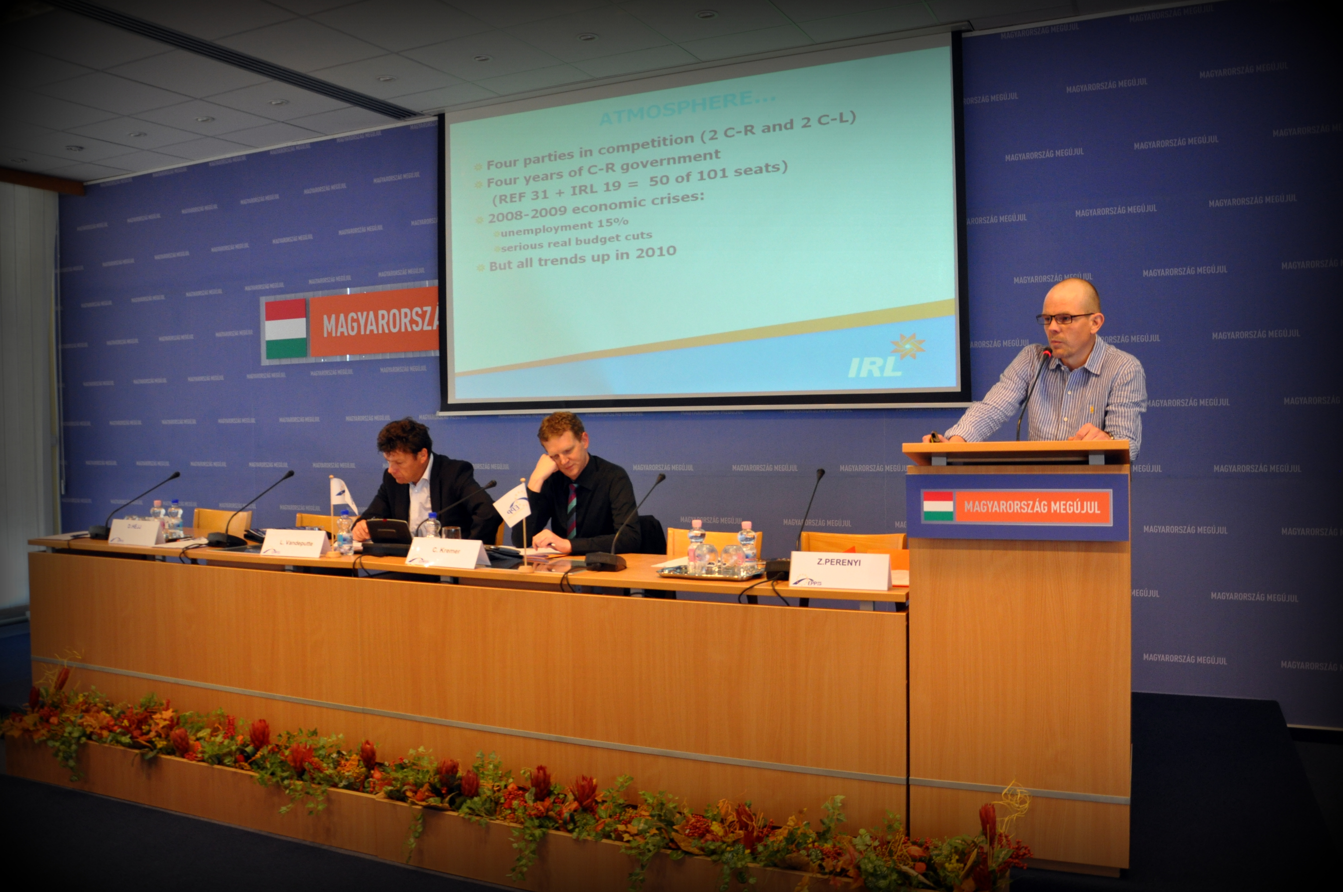 Presentation by Mr. Tiit Riisalo, Campaign Manager of IRL, on the national election campaign 2011 in Estonia